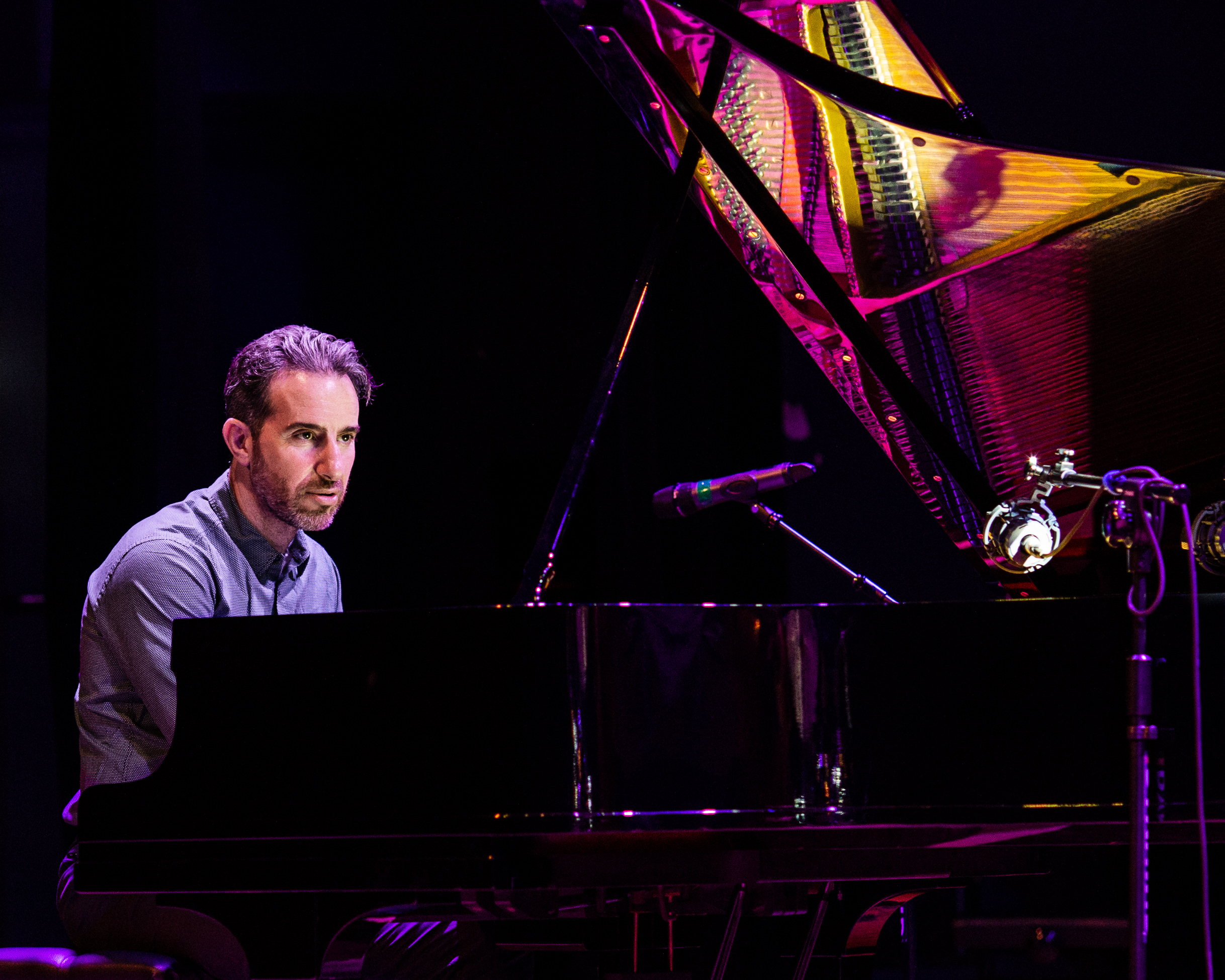 Aaron Goldberg on concert with Yes! Trio in Wrocław, Poland, 2019